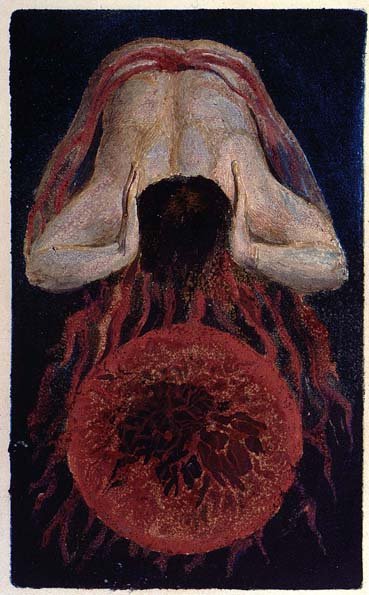 A Small Book of Designs copy A object 3 The First Book of Urizen plate 17